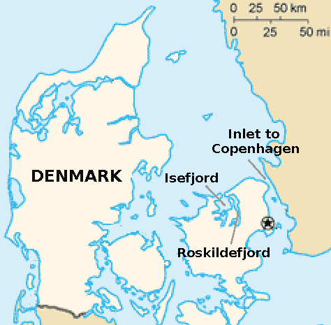 Where the Battle of Copenhagen harbour occured in 1801, and where Roskildefjord is located